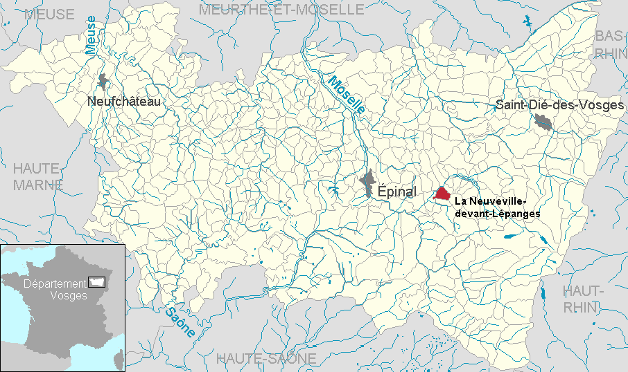 La Neuveville-devant-Lépanges in the department of Vosges, Lorraine, France